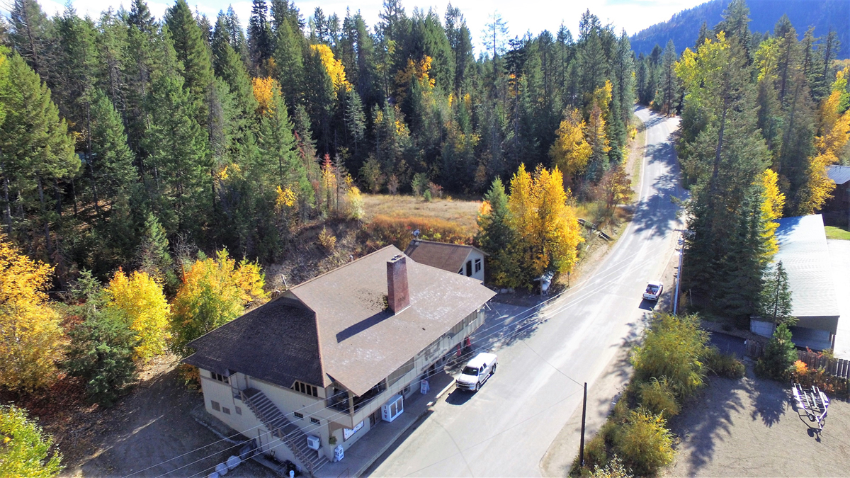 Coolin, Idaho in beautiful Priest Lake